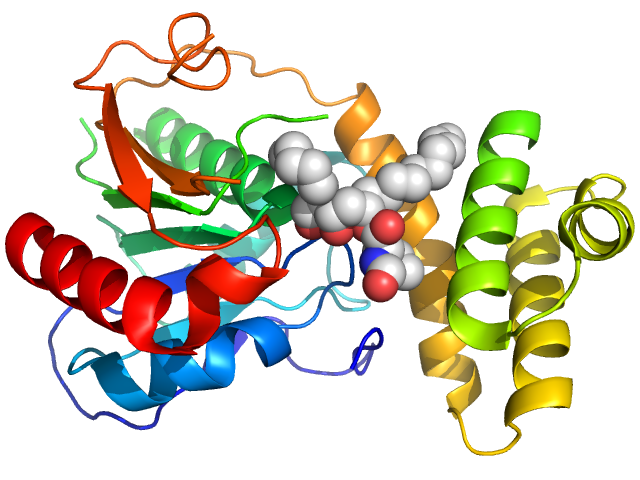 [X-ray_crystallography#Biological_macromolecular_crystallography